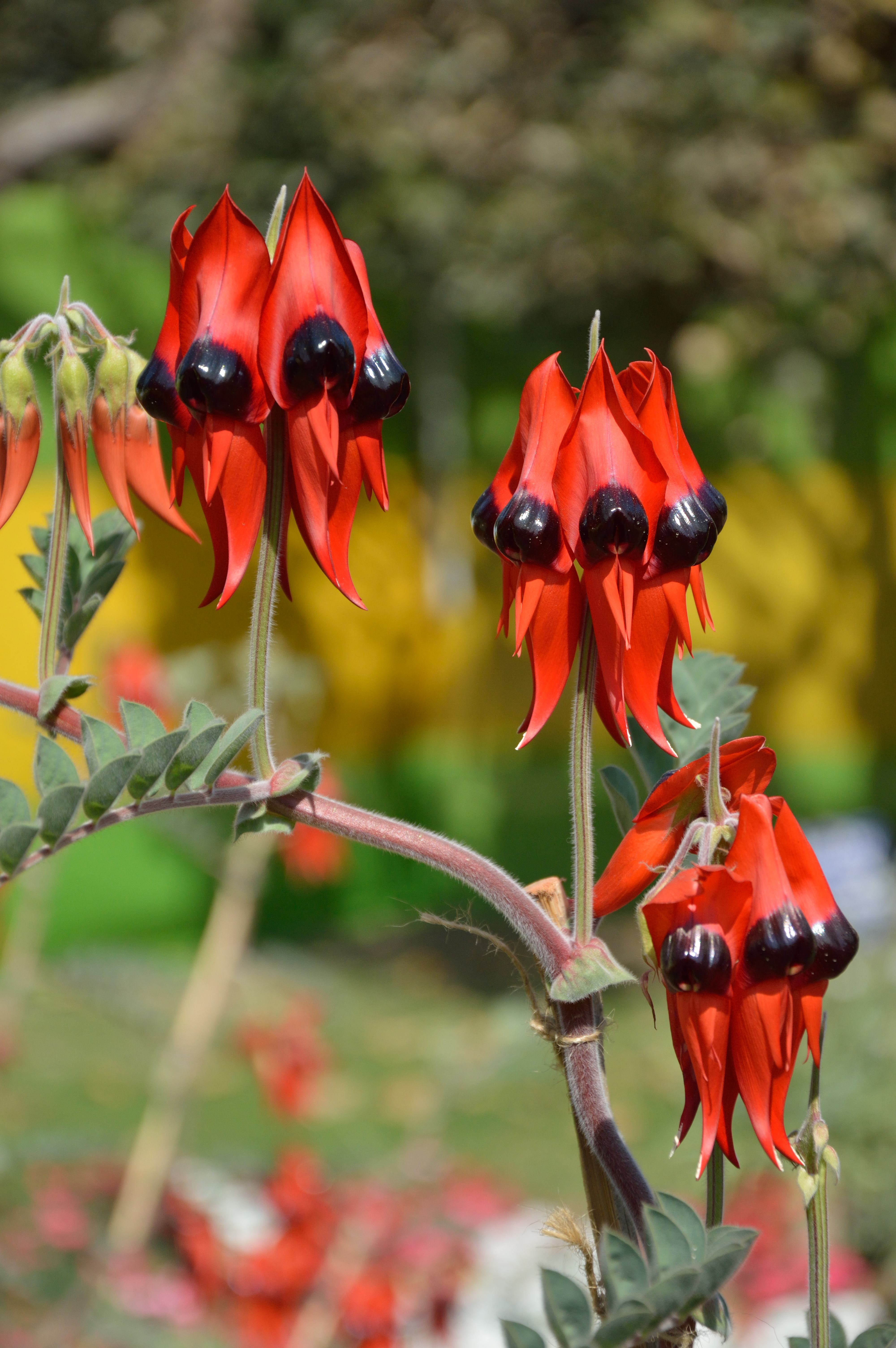 The 186th Annual Flower Show was held at the garden of the Agri-Horticultural Society of India, Alipore, Kolkata, from 7 to 10 February 2013. The exhibition comprises Bonsai, Cacti, Crotons, Dahlias, Fruits, Herbal plants, Palms, Roses, Succulents, Vegetables and perennial flowering plants in pots and uprooted.